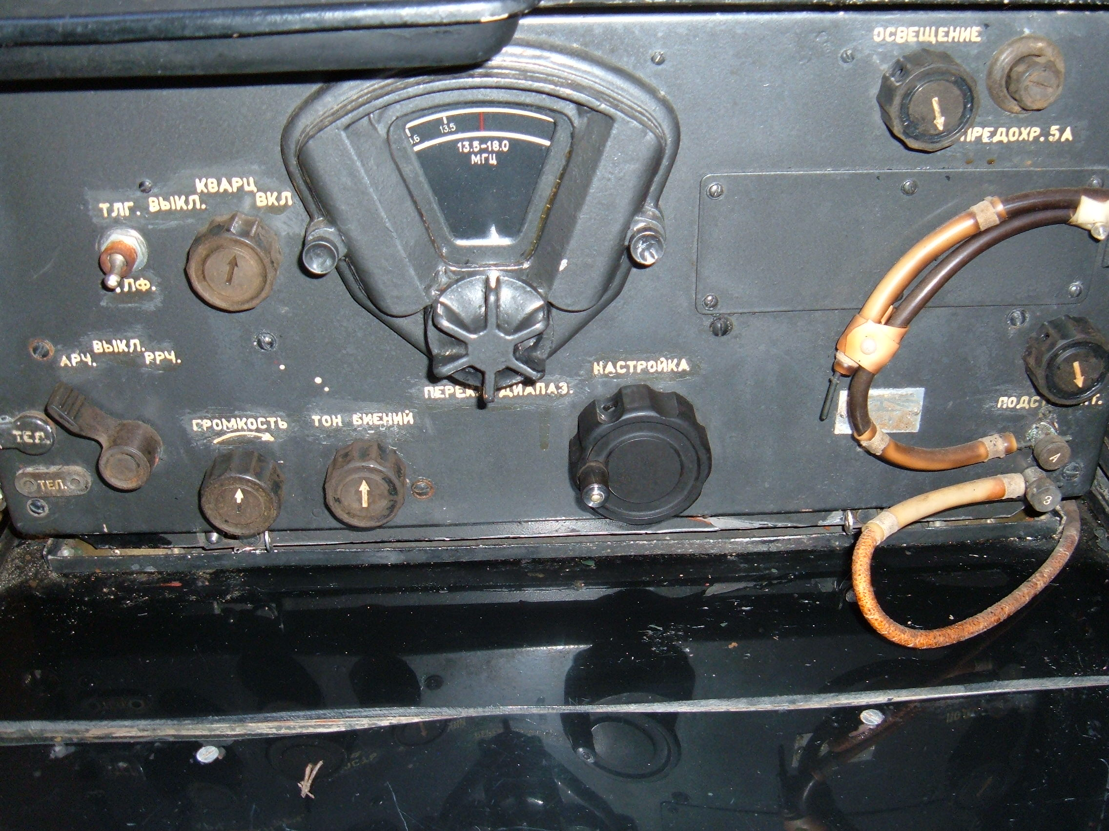 US-9 communication receiver of an Ilyushin Il-14 "Crate". The aircraft is on display at the Pacific Coast Air Museum in Santa Rosa, California. See also File:BC-224-D.jpg.